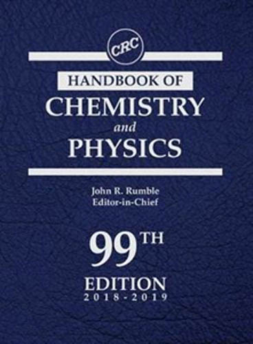 CRC Handbook of Chemistry and Physics, 99th Edition (Title)